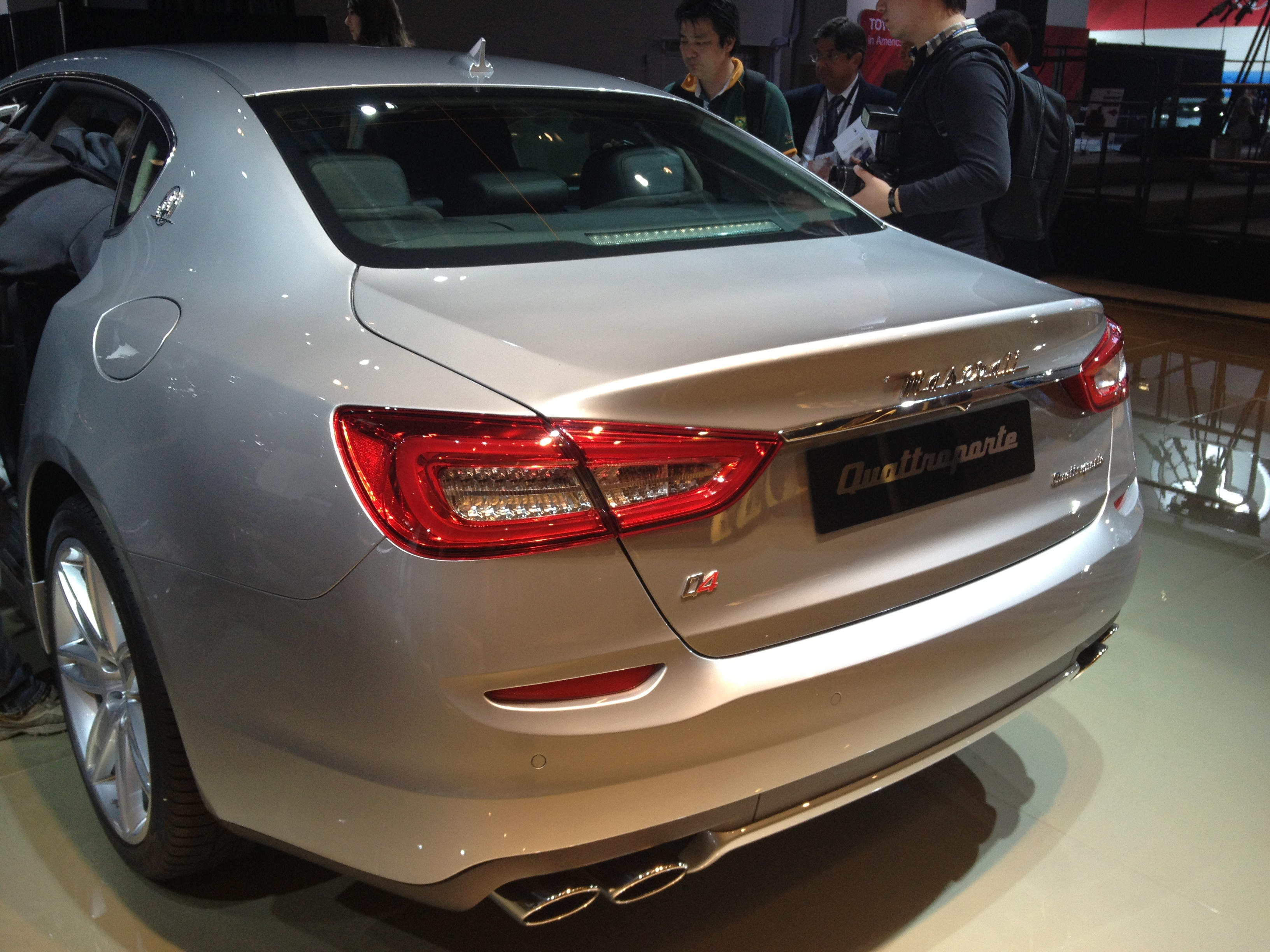 MASERATI QUATTROPORTE 2013 at North American International Auto Show Detroit, Michigan